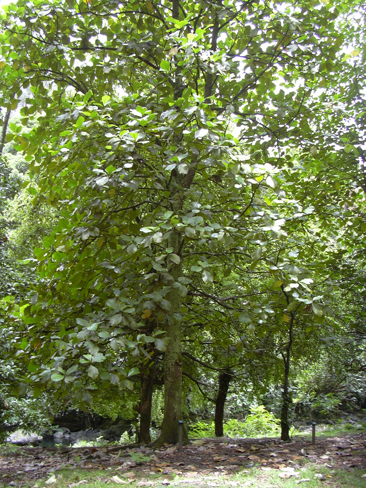 Artocarpus odoratissimus (habit). Location: Maui, Keanae Arboretum